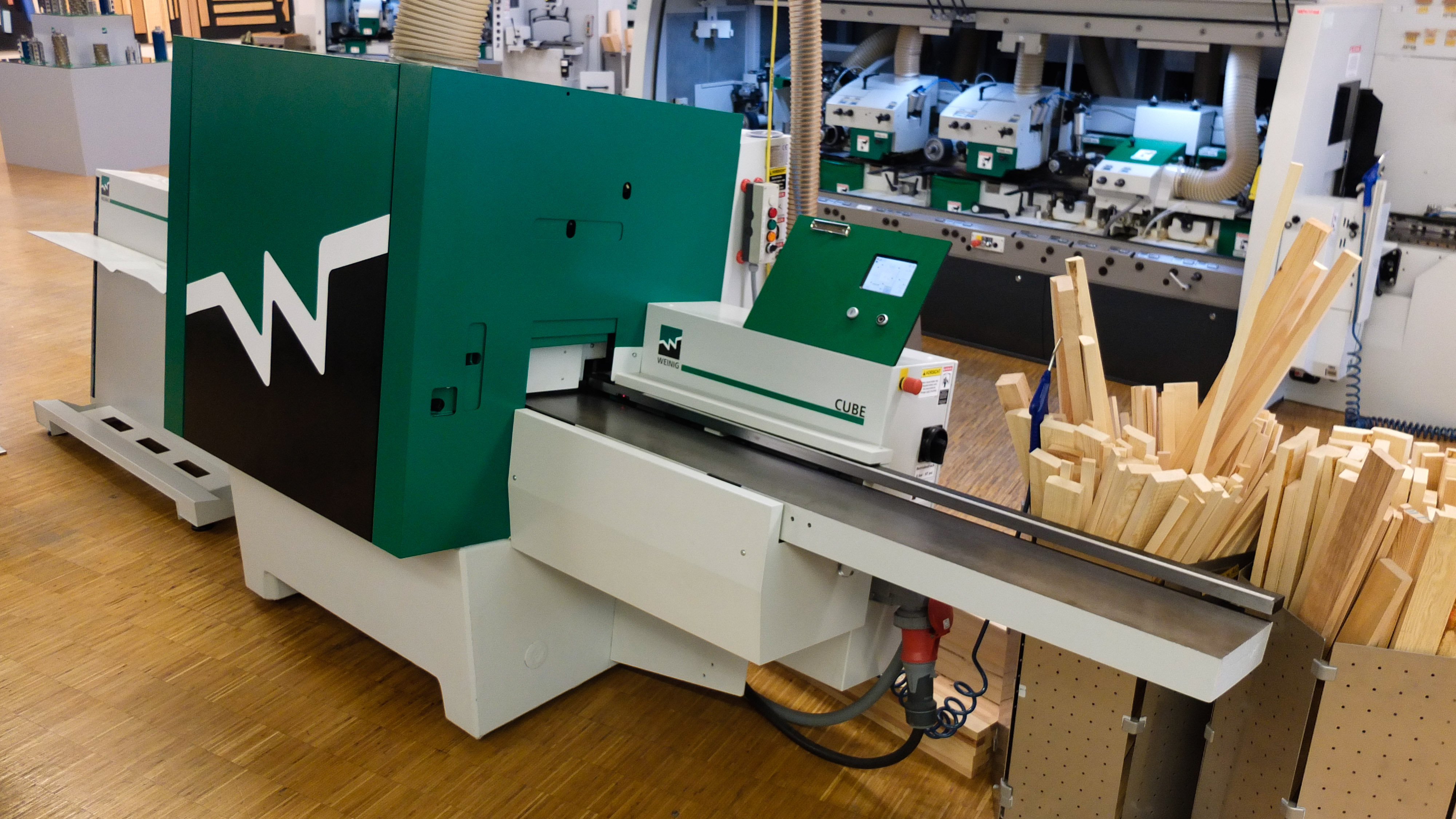 Planing Machine Weinig Cube